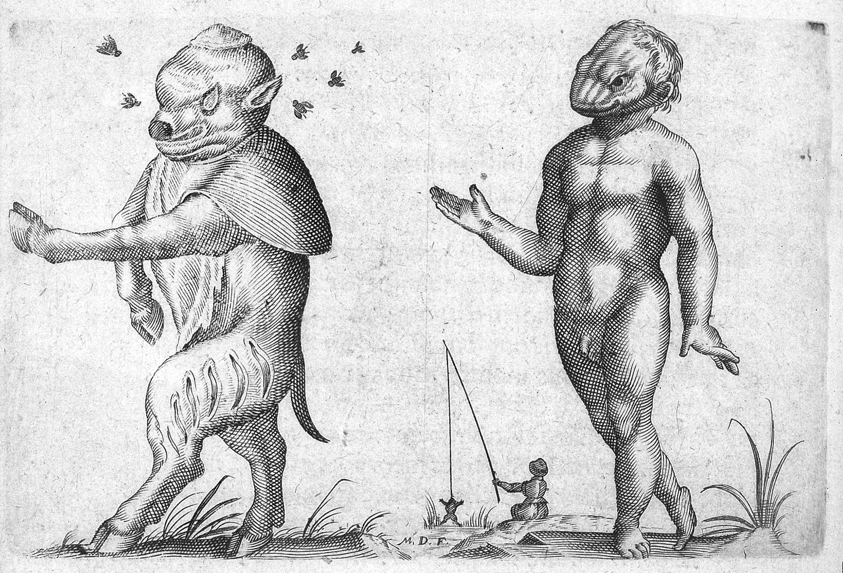 Monstruous bodies Rare Books Keywords: Abnormalities; Fortunius Licetus